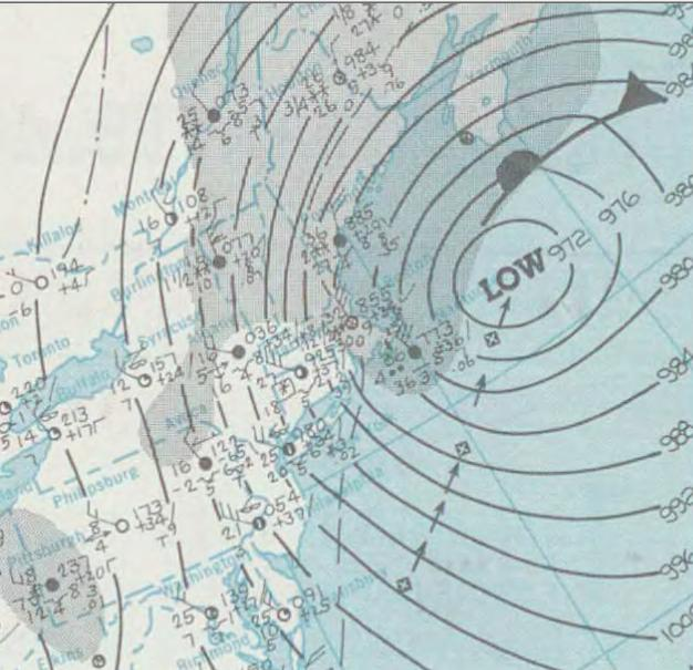 February 10, 1969 weather map of a nor'easter in New England.